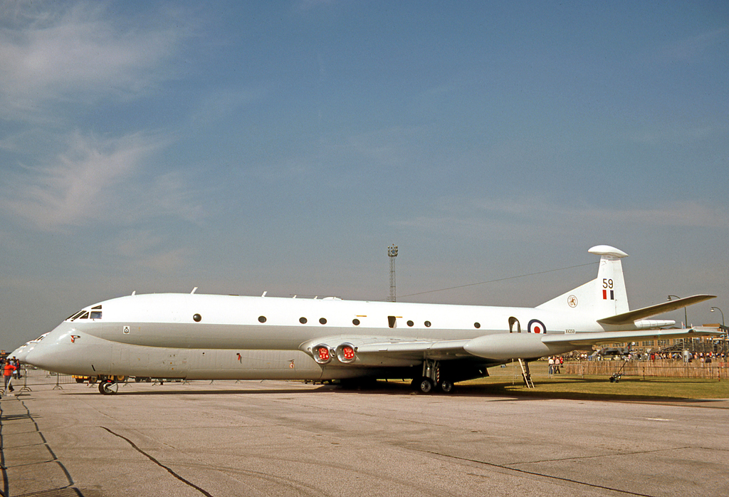 Hawker Siddeley Nimrod MR.1 XV259 of No. 206 Squadron Royal Air Force at RAF Finningley in 1977